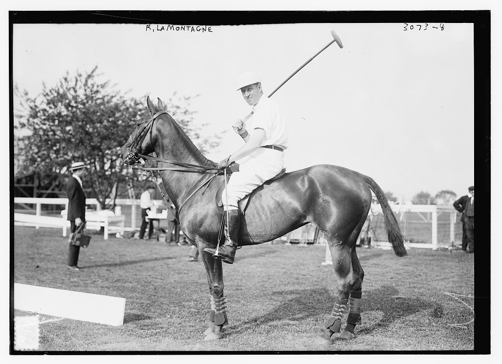 Rene La Montagne in 1914 Bain News Service,, publisher. R. La Montagne [between ca. 1910 and ca. 1915] 1 negative : glass ; 5 x 7 in. or smaller. Notes: Title from unverified data provided by the Bain News Service on the negatives or caption cards. Forms part of: George Grantham Bain Collection (Library of Congress). Format: Glass negatives. Repository: Library of Congress, Prints and Photographs Division, Washington, D.C. 20540 USA, General information about the Bain Collection is available at Persistent URL: Call Number: LC-B2- 3073-8